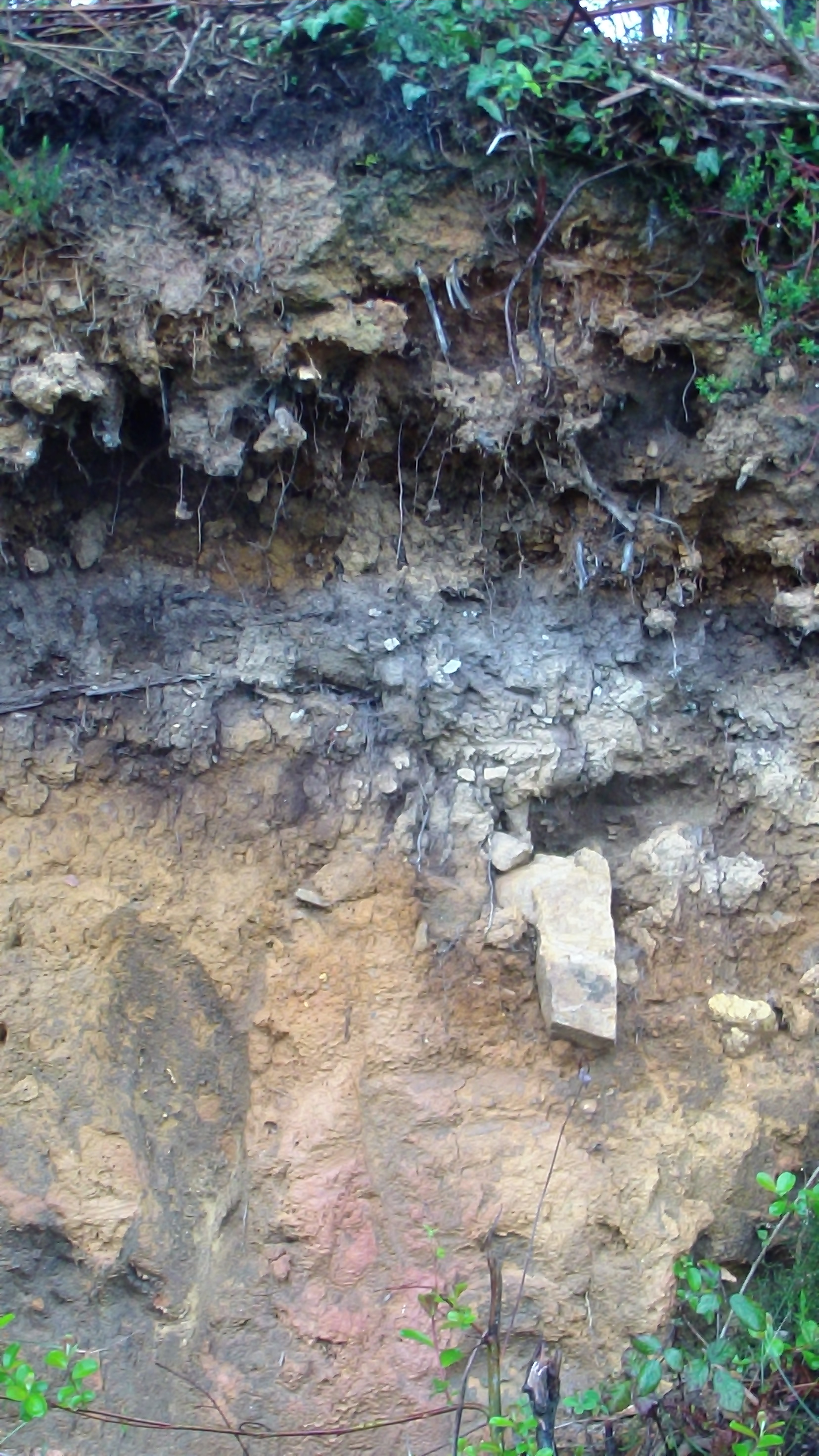 Exposes an example of deposition on the layers of the Called Fazaouro Fm, on the NE of Galicia, Spain.